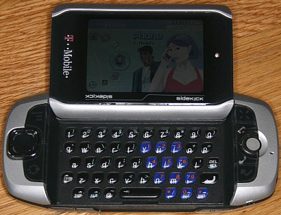 T-Mobile Sidekick 3. Taken 3/14/07 by Fractions